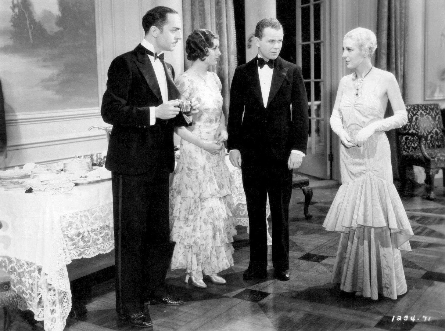 Still of William Powell, Marion Shilling, Regis Toomey, and Natalie Moorhead in a scene from the 1930 film Shadow of the Law.